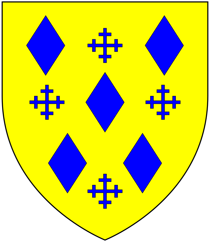 In May 1614 a coat of arms was granted to the head of the Northover family of Aller Court in the County of Somerset, by William Camden, Clarienceaux herald as follows: Or, five lozenges in saltire azure between four cross-crosslets of the second (Guillim, John, Display of Heraldry, Section IV, p.72[1])